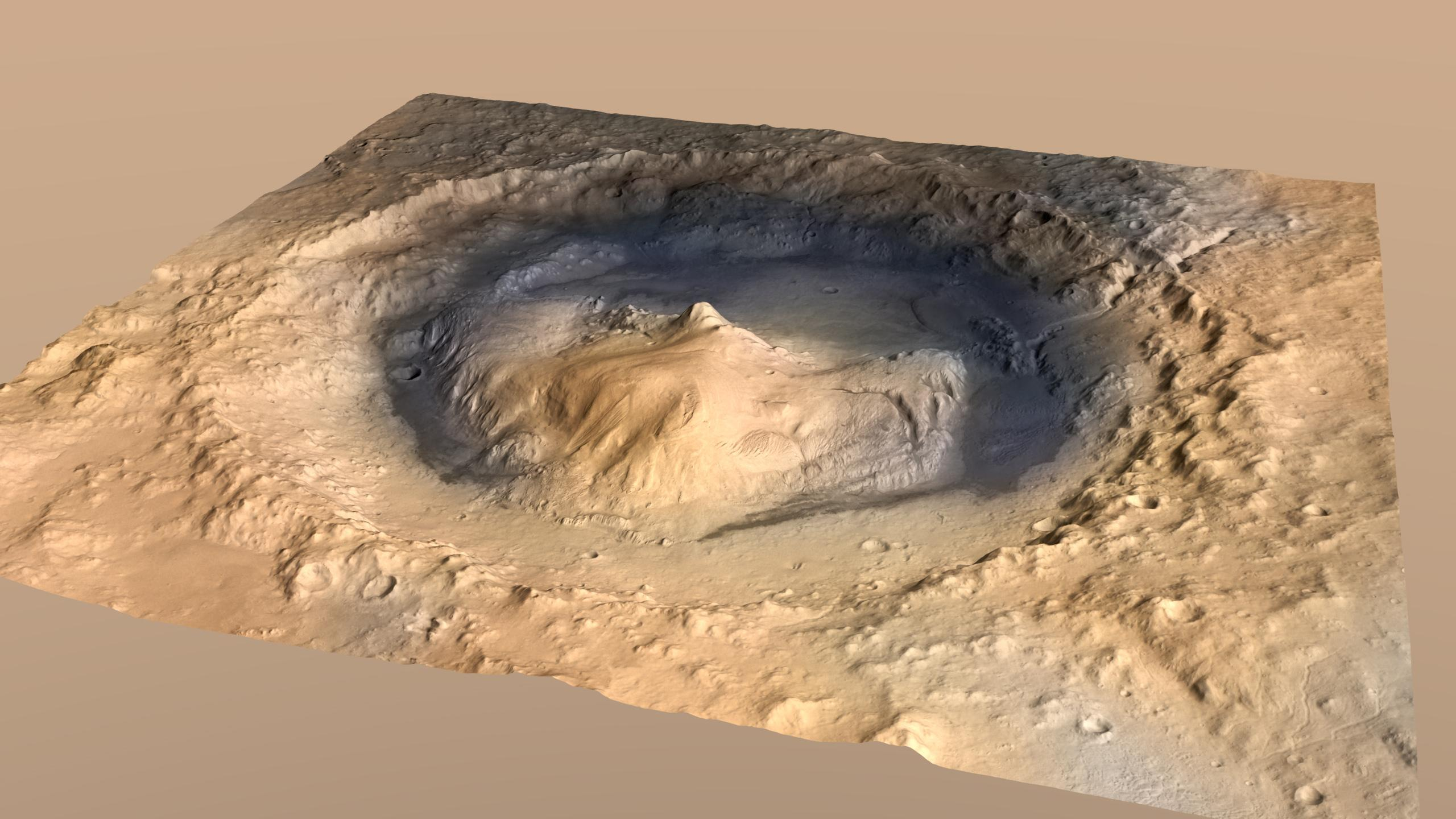 Oblique View of Gale Crater, Mars, with Vertical Exaggeration Gale Crater, where the rover Curiosity of NASA's Mars Science Laboratory mission will land in August 2012, contains a mountain rising from the crater floor. This oblique view of Gale Crater, looking toward the southeast, is an artist's impression using two-fold vertical exaggeration to emphasize the area's topography. Curiosity's landing site is on the crater floor northeast of the mountain. The crater's diameter is 96 miles (154 kilometers). The image combines elevation data from the High Resolution Stereo Camera on the European Space Agency's Mars Express orbiter, image data from the Context Camera on NASA's Mars Reconnaissance Orbiter, and color information from Viking Orbiter imagery. Image credit: NASA/JPL-Caltech/ESA/DLR/FU Berlin/MSSS